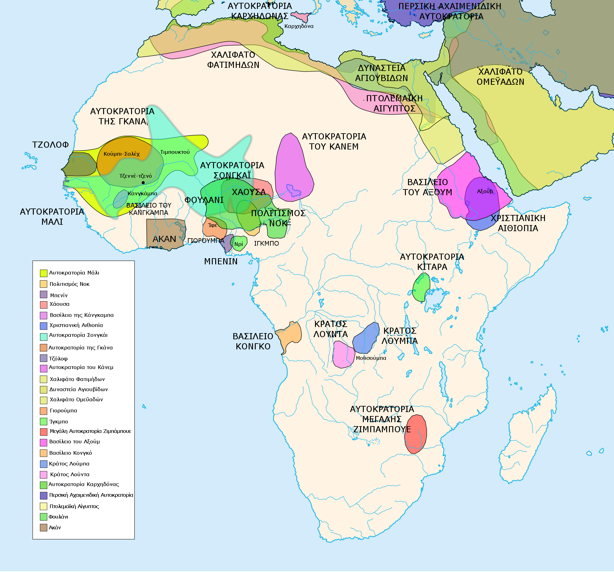 Translation of File:African-civilizations-map-pre-colonial.svg to Greek